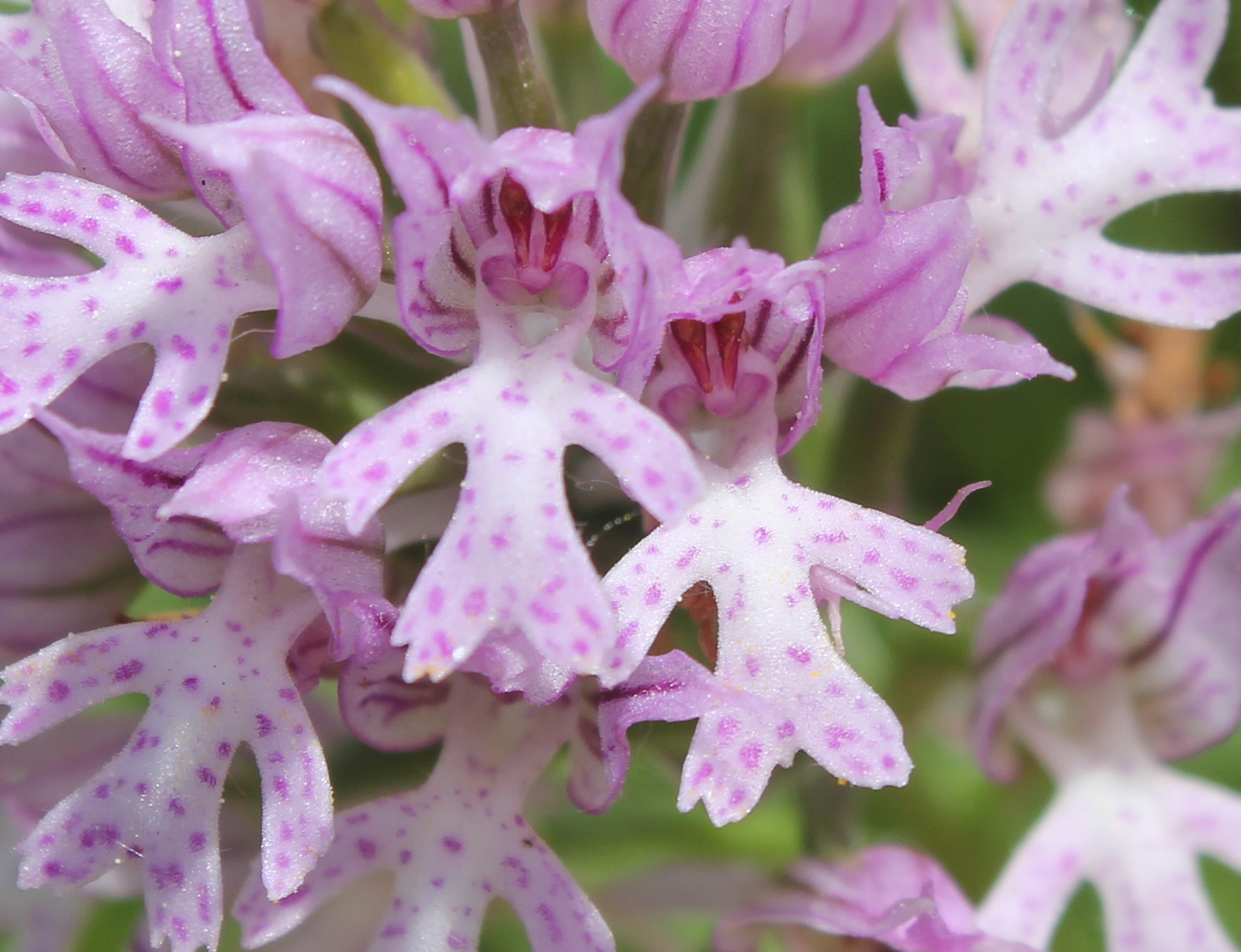 Neotinea tridentata labellum